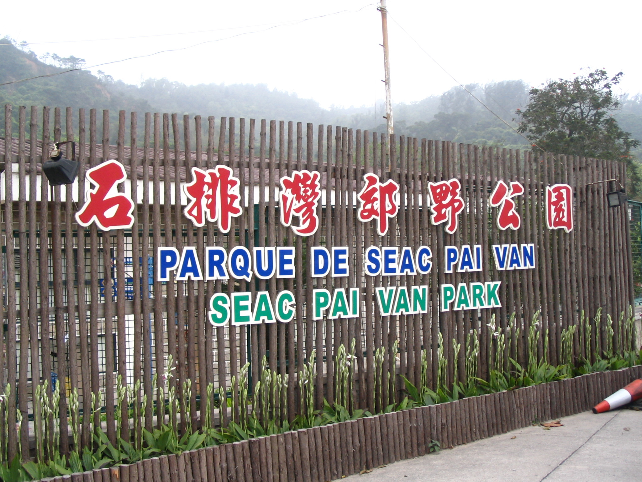 Photo of Seac Pai Van Park taken by User:Minghong (March 21, 2006).